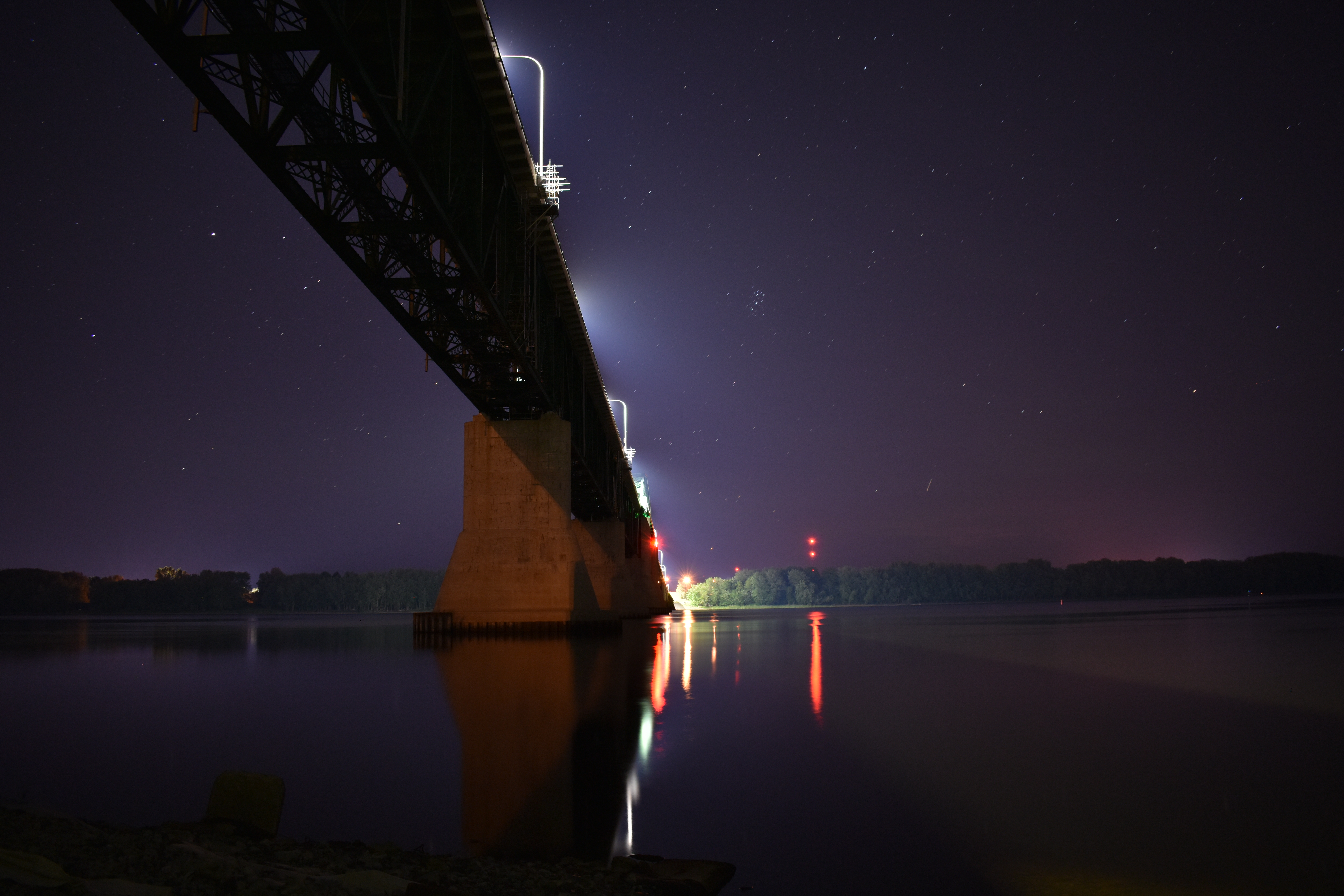 The Princess Margaret Bridge at night.